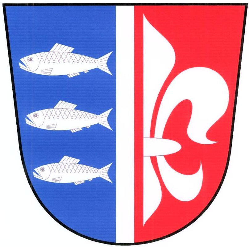 Coat of amrs of Herink , District Prague East, Czech Republic